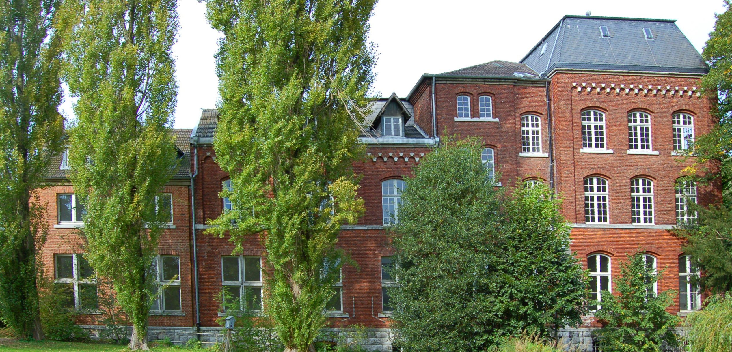 former school building of the new Kornelimünster abbey